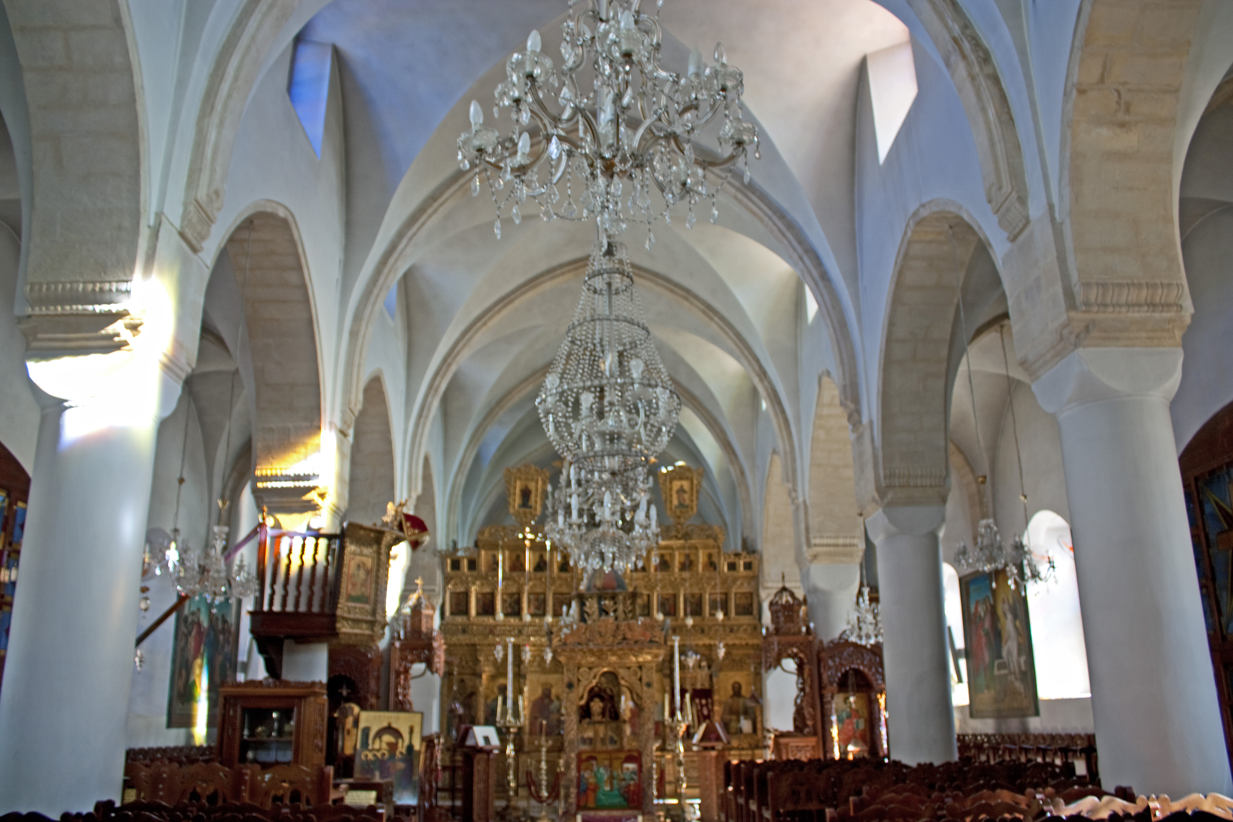 Interior of the Church of the Holy Cross in the Monastery of Stavros in Omodos, Cyprus.